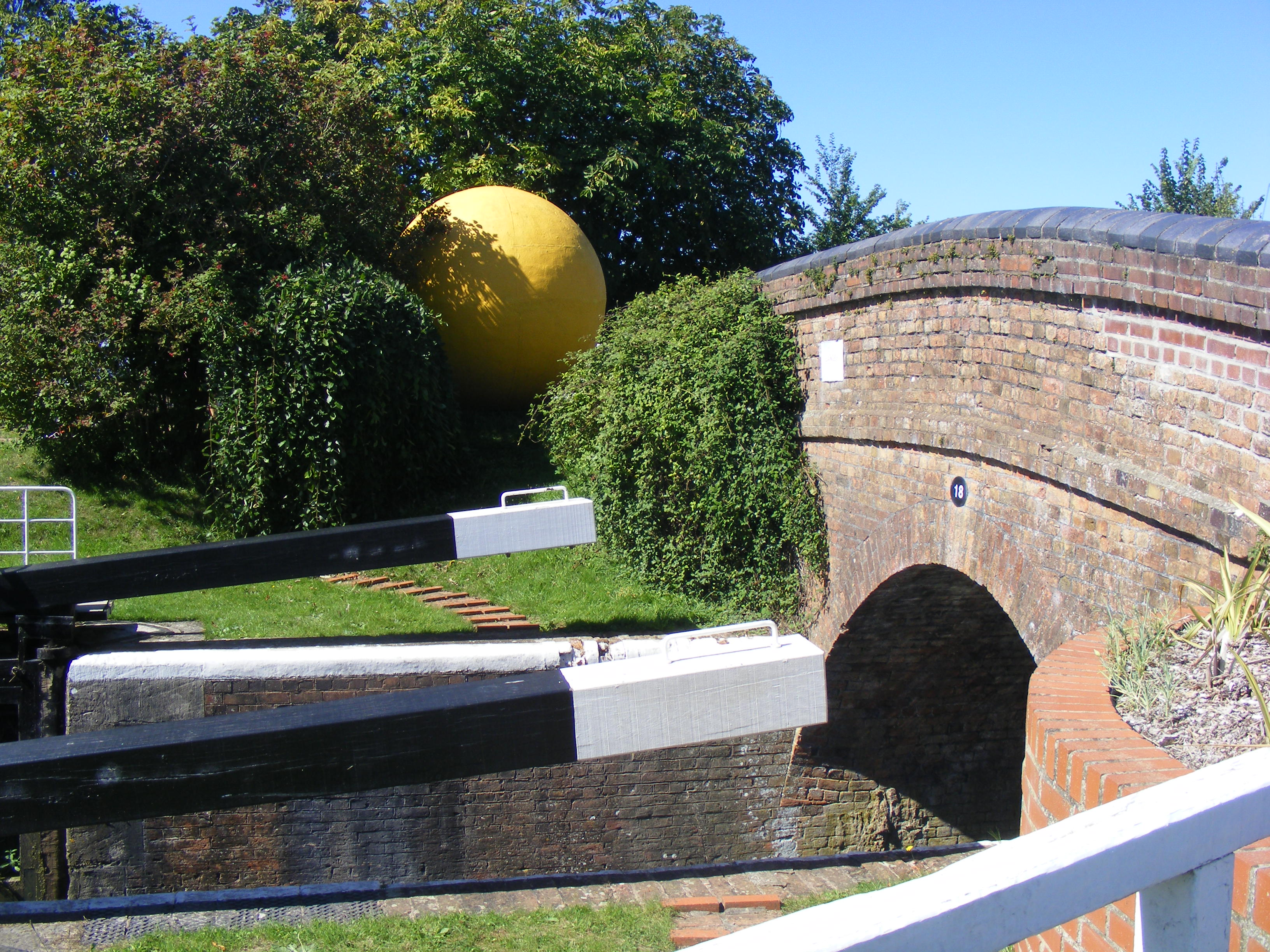 One of the canal side markers representing the planets on the Somerset Space Walk – this is the model of the Sun, in the middle of the walk, at Maunsel Lock.